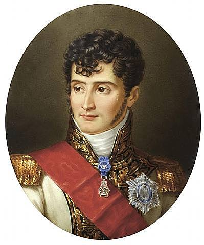 Portrait of Jérôme Bonaparte (1784-1860)